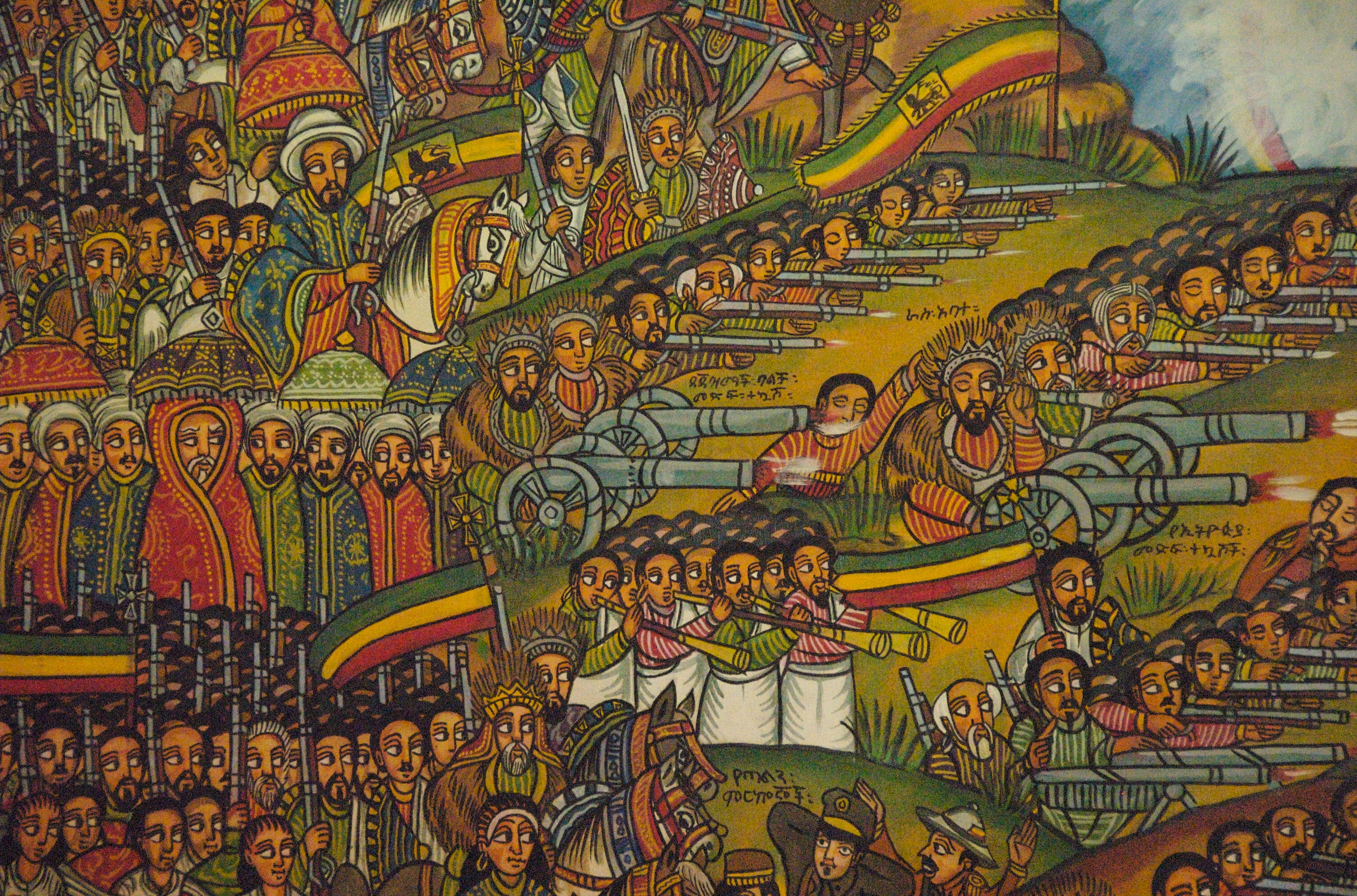 On March 1, 1896, Ethiopian forces commanded by Emperor Menelik II defeated the Italian army at the Battle of Adwa. It was the first time an African nation had defeated a European power. The Ethiopian victory at Adwa prevented the Italians from establishing imperial rule over Ethiopia then. However, forty years later the Italians conquered Ethiopia and established the short-lived colony of Africa Orientale Italiana (Italian East Africa). The colony existed from 1936 through mid-1941, when the Italians were expelled permanently.